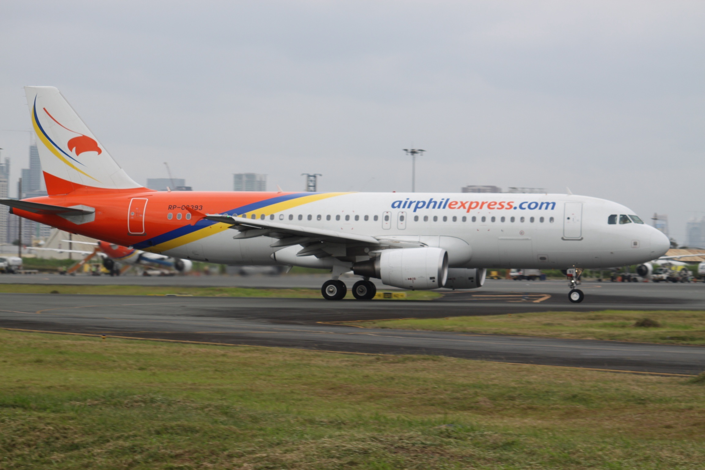 At Manila Ninoy Aquino International